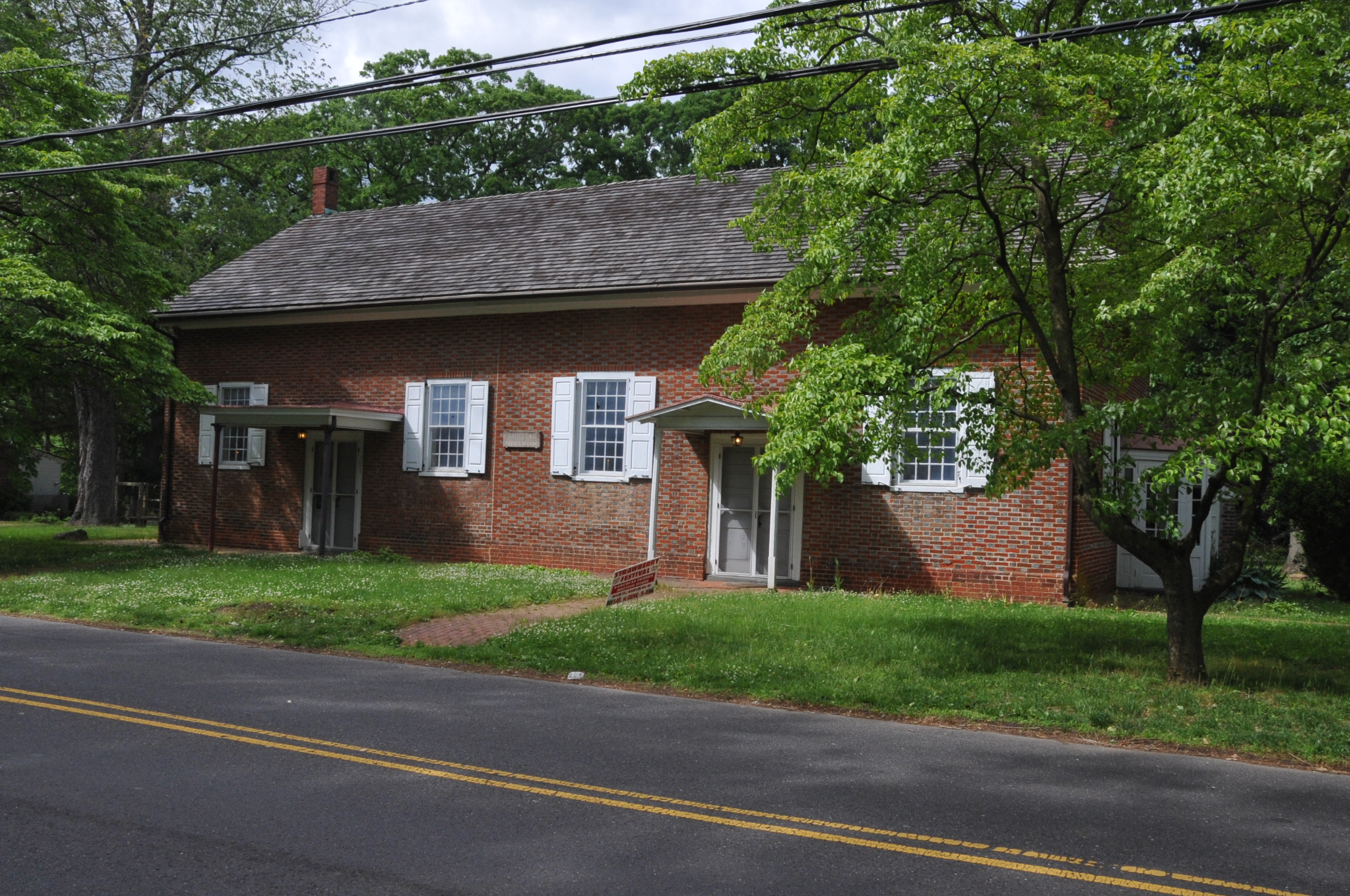 THE CENTERPIECE OF RANCOCAS VILLAGE IS THE RANCOCAS FRIENDS MEETINGHOUSE FOUNDED IN 1703